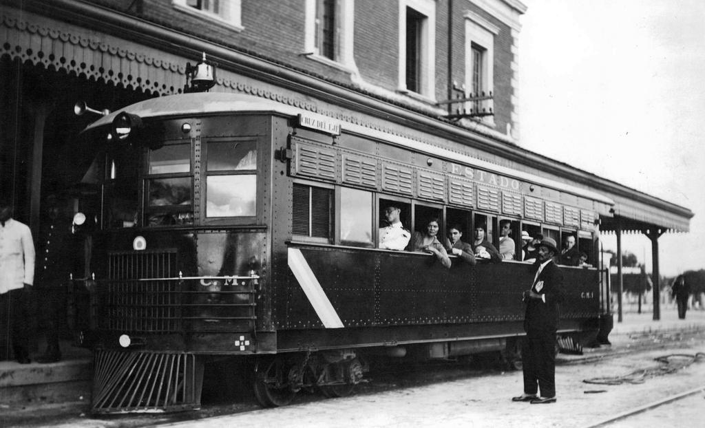 One of the first railcars for the Córdoba-Cruz del Eje line.